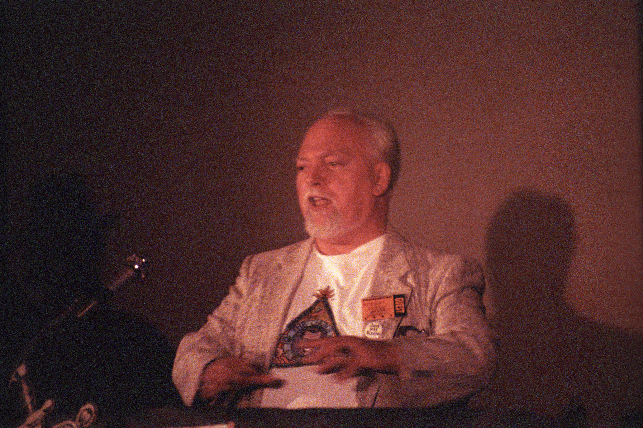 Robert Anton Wilson speaking at Phenomicon in 1991.